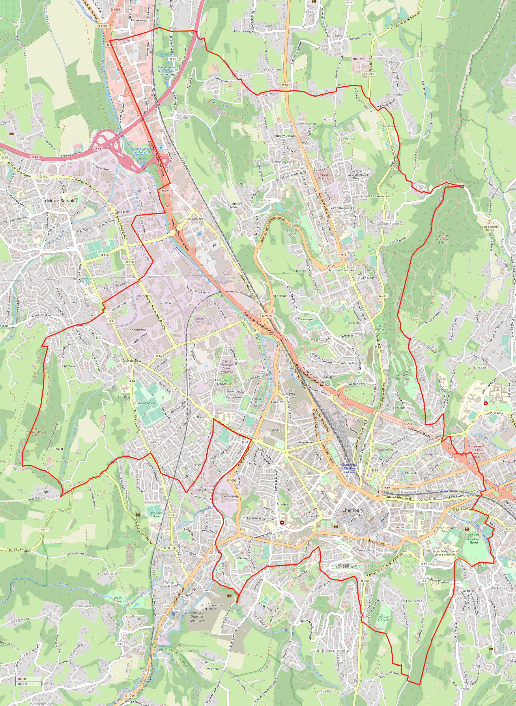 Map of the French commune of Chambéry, head of department Savoie, at the end of 2020.